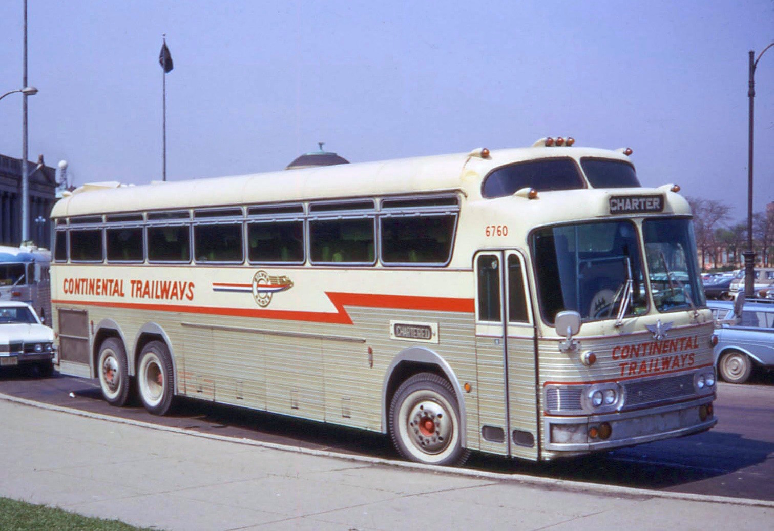 Continental Trailways bus 6760 at the Museum of Science and Industry, in Chicago, in 1968. Coach 6760 was built by Eagle.